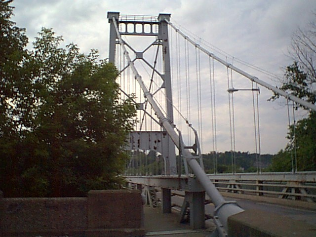 Kingston - Port Ewen Suspension Bridge